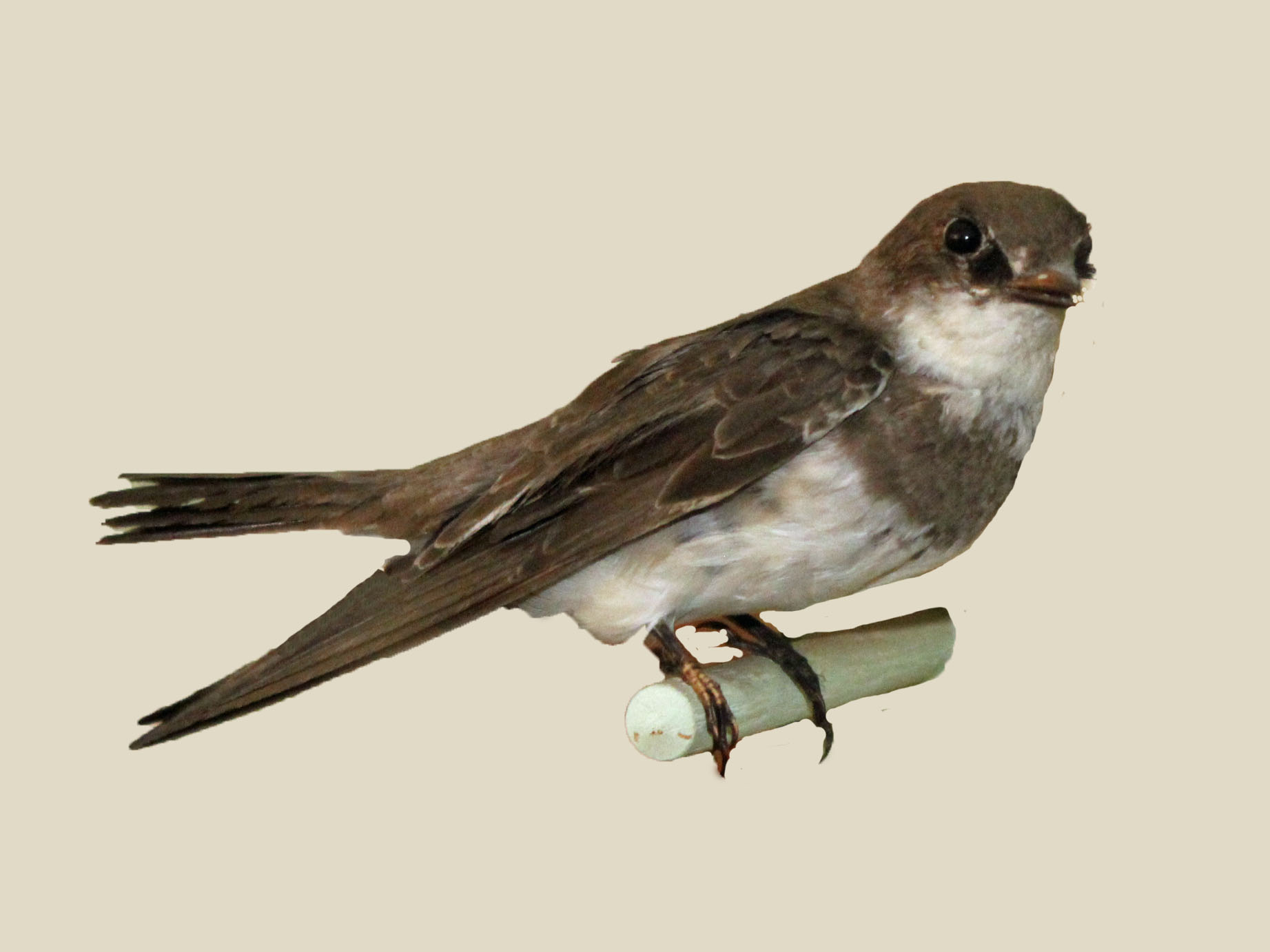 Banded Martin (Riparia cincta). Photograph of a specimen at Nairobi National Museum in Nairobi, Kenya.